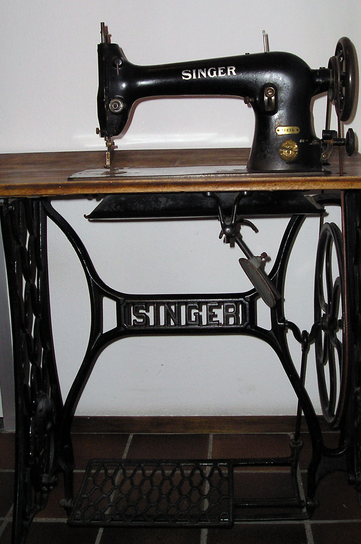 Singer sewing machine - 31K32